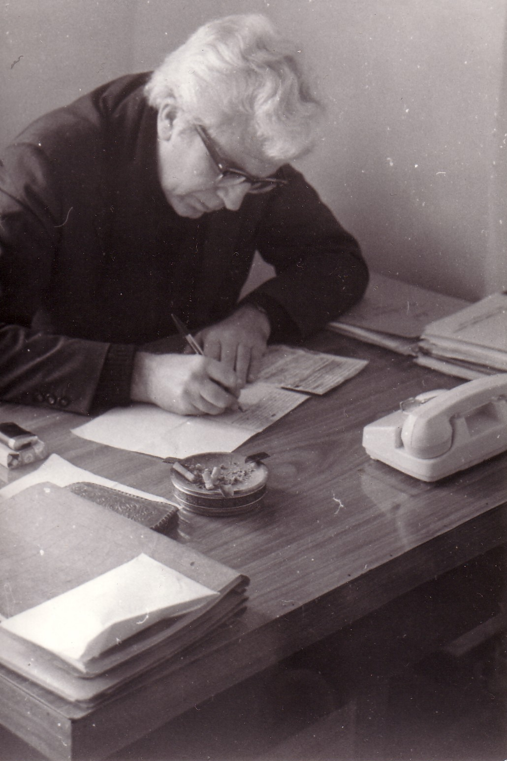 The author performing editorial work at Publishing House "Flame" Sofia c.1964